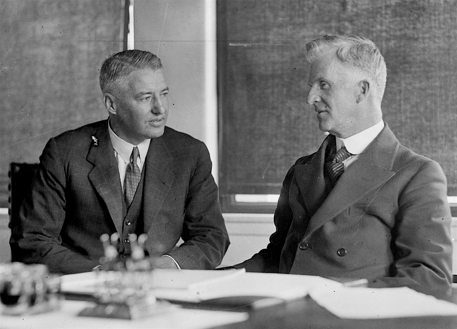 Prime Minister James Scullin (right) with his deputy, Treasurer Ted Theodore